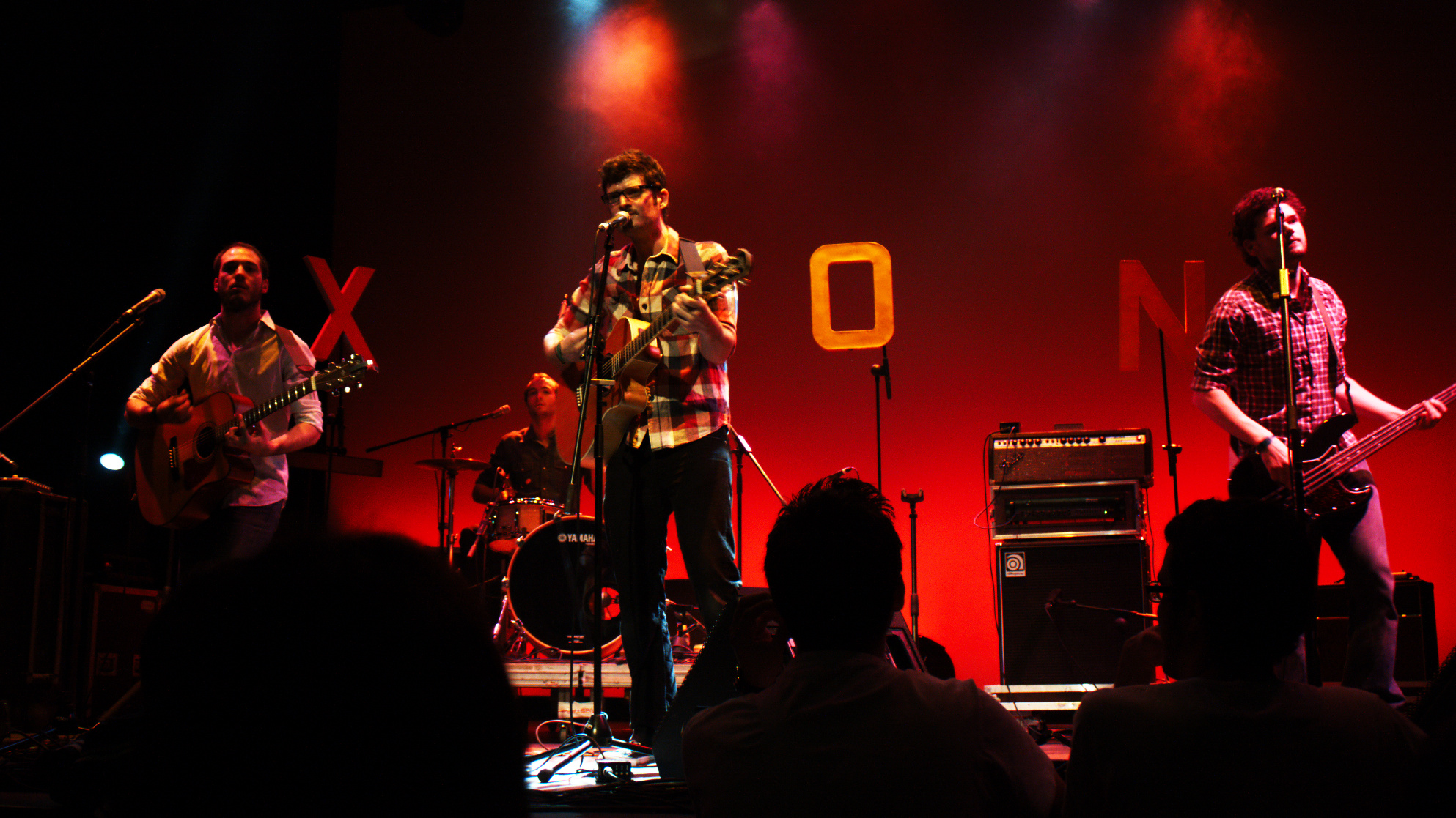 Exsonvaldes live at the South Pop Festival in Sevilla (Spain) in 2010 by Rafal Tovar